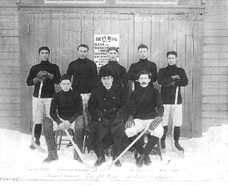 Photo of the Dawson ice hockey team in front of Dey's Rink, Ottawa